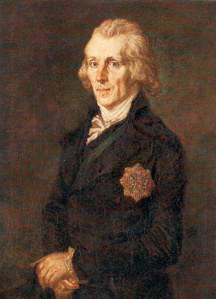 Portrait of Benjamin Thompson (1753-1814)